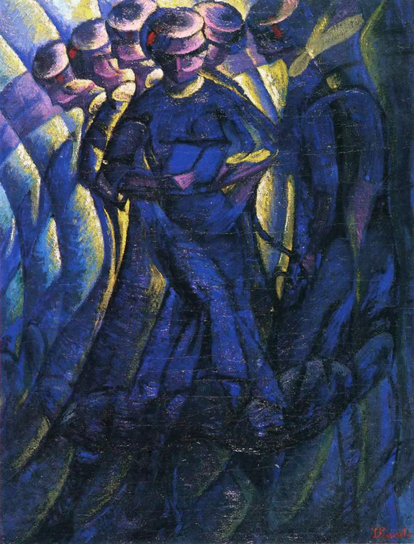 Luigi Russolo, 1912, Sintesi plastica dei movimenti di una donna (Synthèse plastique des mouvements d'une femme), oil on canvas, 86 x 65 cm, Musée de Grenoble